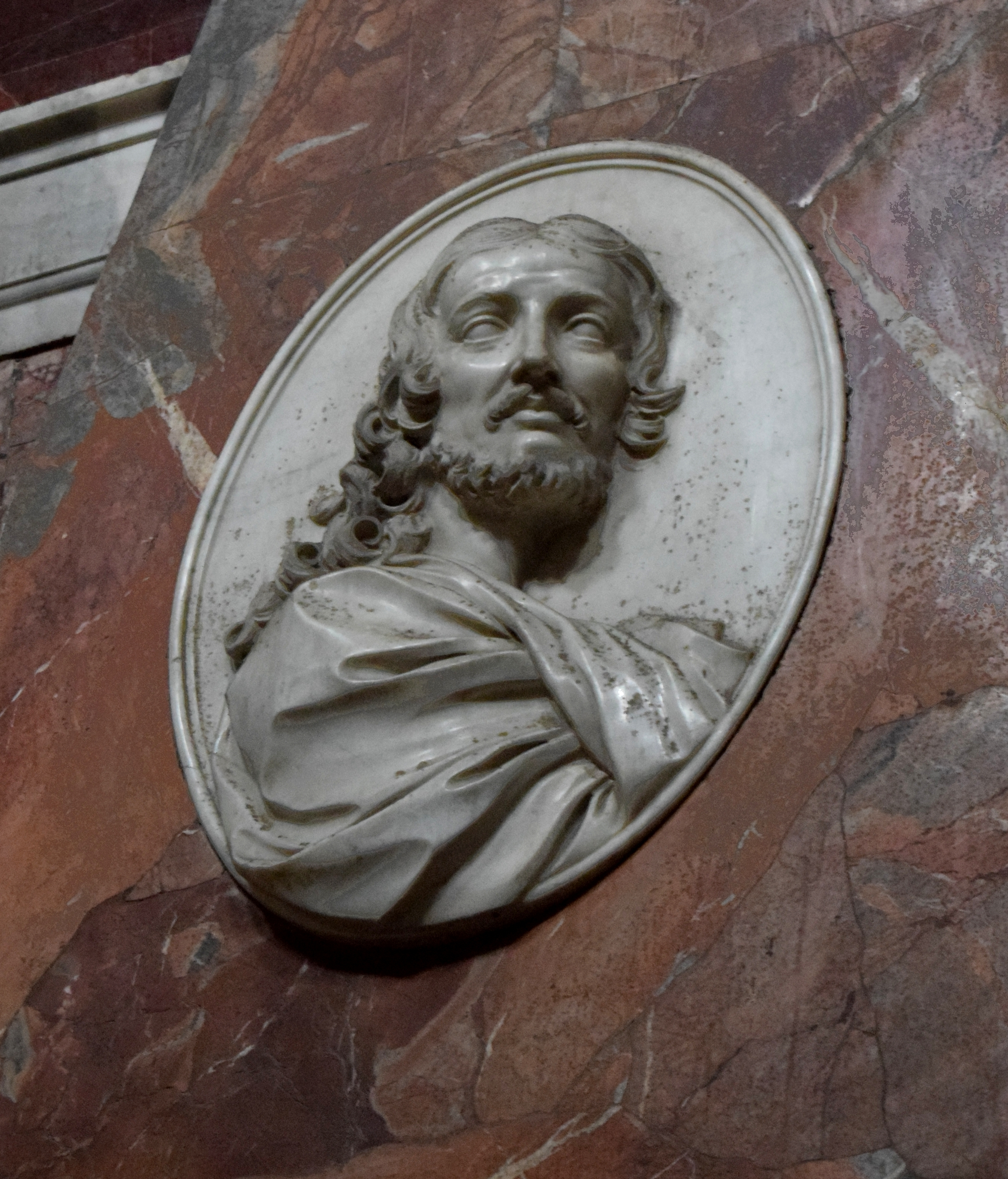 Marble medallion with the portrait of Sigismondo Chigi on his tomb by Gianlorenzo Bernini. Chigi Chapel, Santa Maria del Popolo.